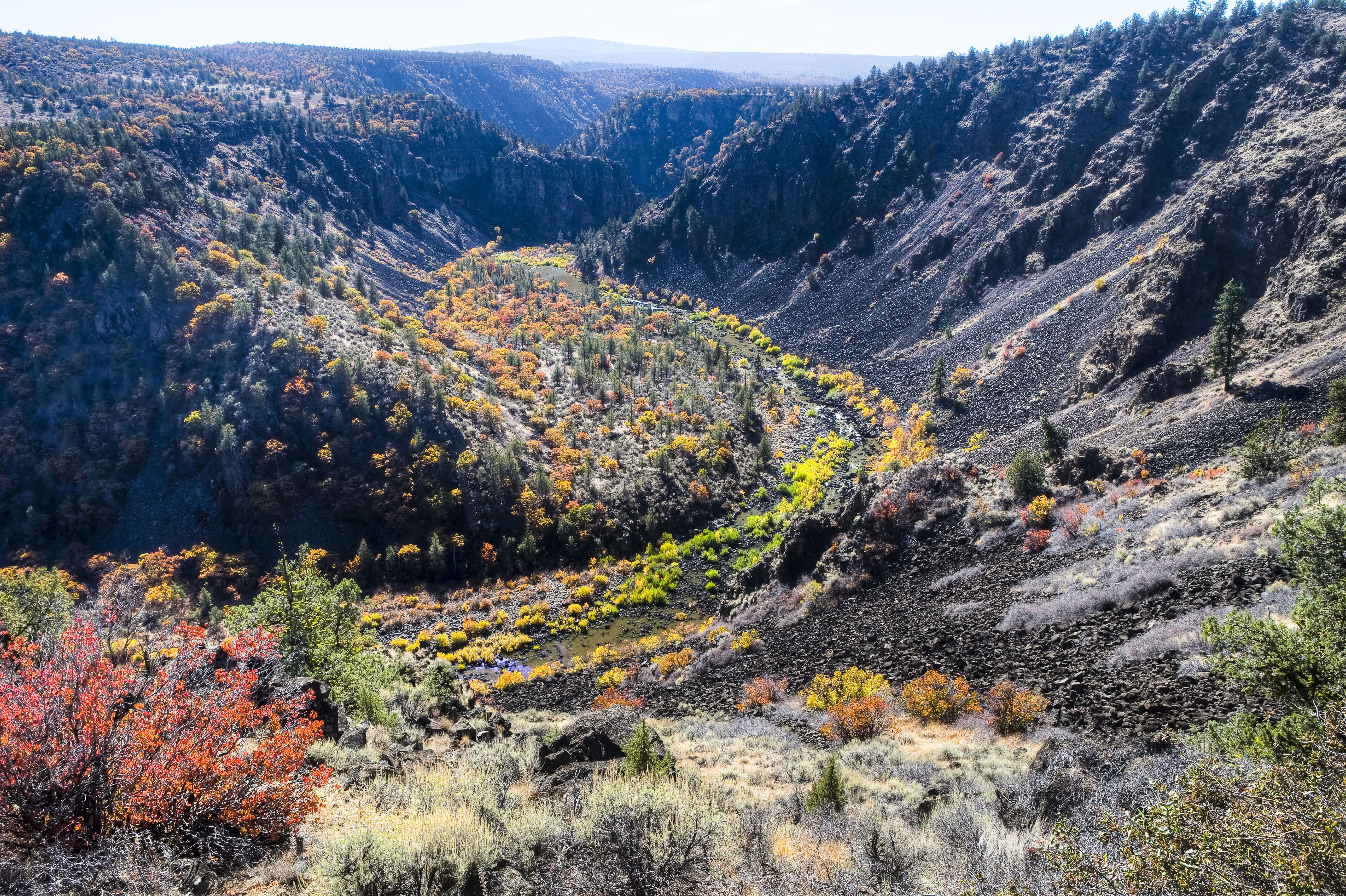 The Pit River Canyon Wilderness Study Area is comprised of 10,984 acres (4,445 ha) and has outstanding opportunities for solitude or primitive types of unconfined recreation. There are 13 miles (21 km) of the Pit River within the WSA with dynamic geology, wildlife, and historic values. The flats above the canyon have yearlong populations of deer and antelope, while birds of prey utilize the canyon resources. Segments of the 1848 National Historic Lassen Emigrant Trail is located within the boundary of the WSA. Legal access is limited due to intermingled private and public lands, always secure permission prior to entry. Learn more: Photo: Bob Wick, BLM California